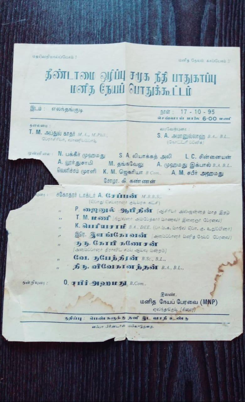 தீண்டாமை ஒழிப்பு சமூக நீதி மாநாடு